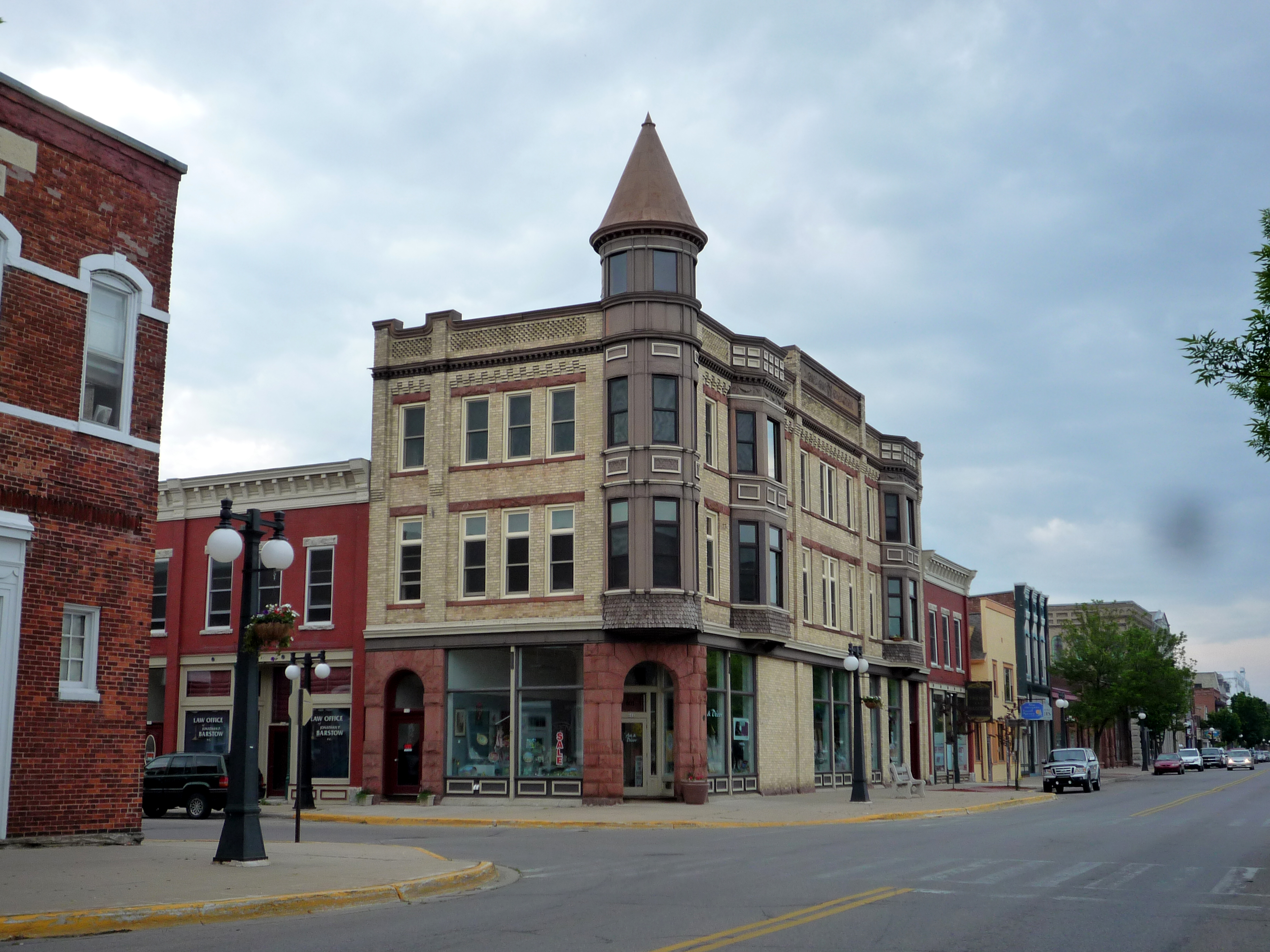 Historical Waterfront Downtown, on the National Register of Historic Places as "First Street Historic District", Menominee, Michigan, USA.